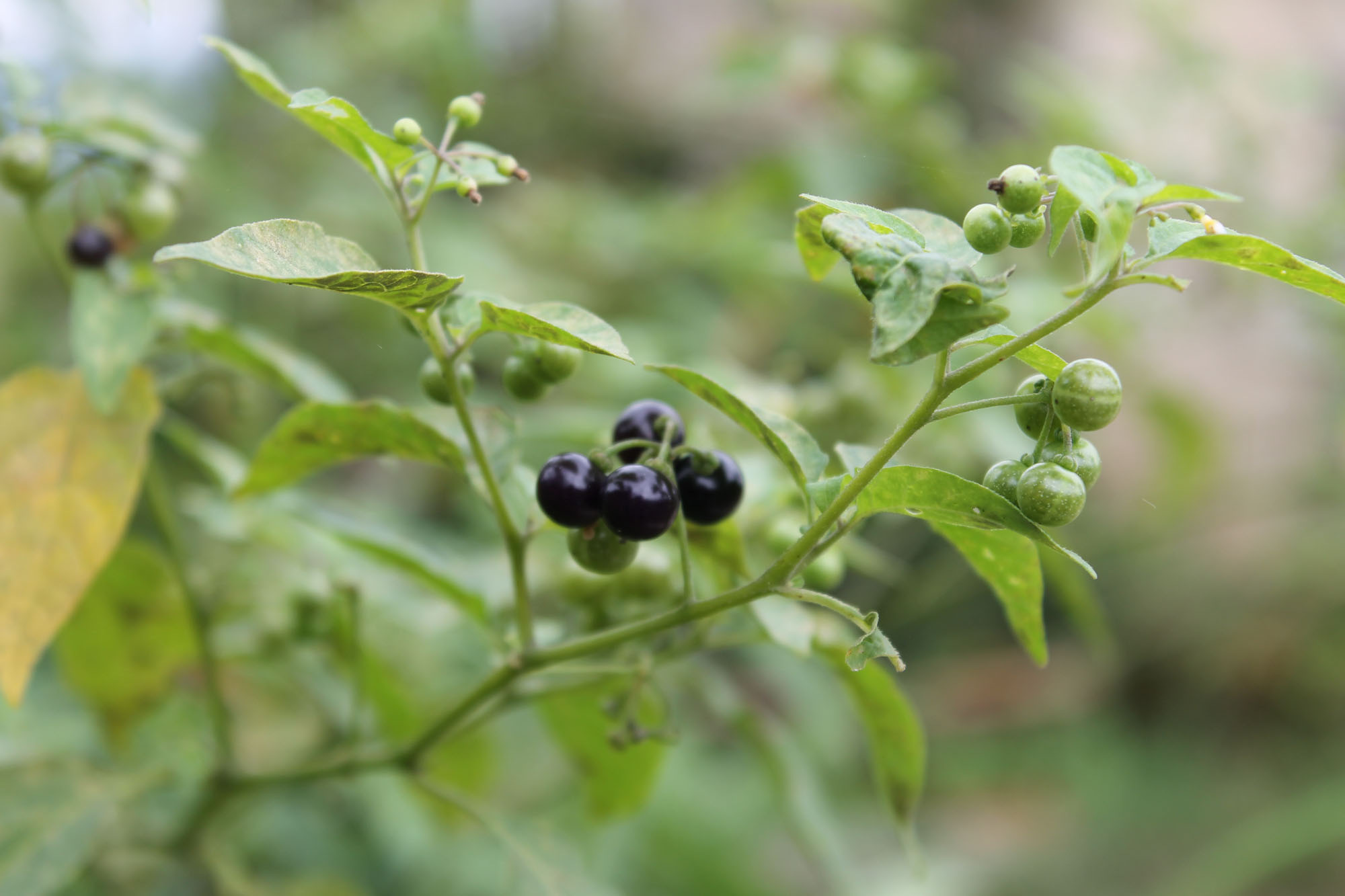 Solanum nigrum fruit, Panchkhal Valley, Nepal.